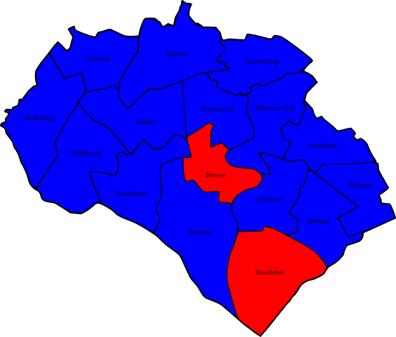 A map of the results of the 2008 Southampton Council election. Colour legend by wards won: Conservative party Labour party